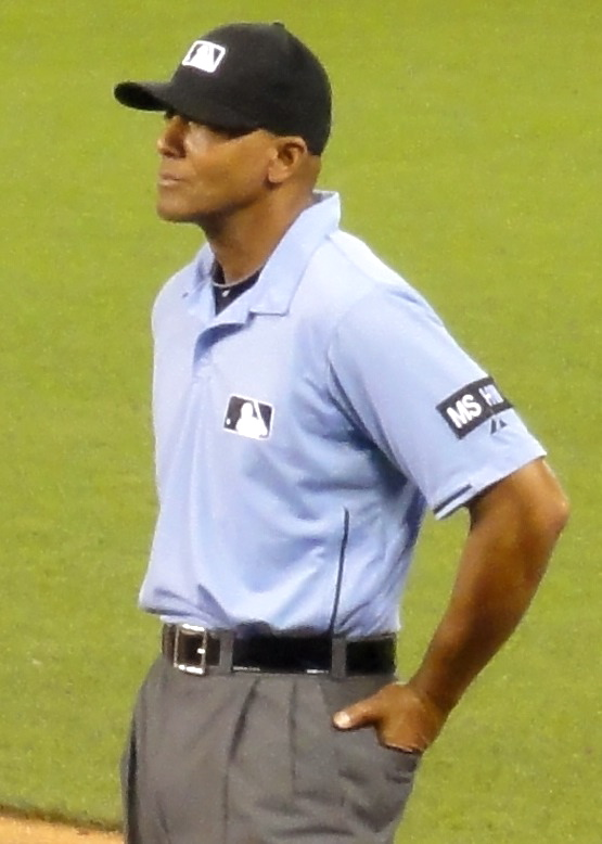 MLB umpire C.B. Bucknor at Kauffman Stadium - Royals vs. Brewers, June 14, 2012.